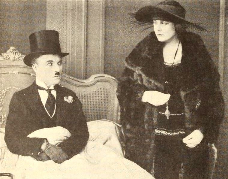 Still from the American silent film The Idle Class (1921) with Charlie Chaplin and Edna Purviance, page 74 November 1921 Photoplay.